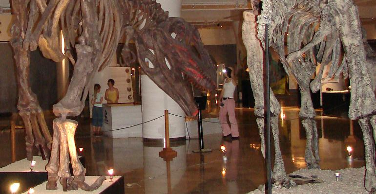 Patagonian dinosaurs on a temporary exhibition, Hungarian Natural History Museum, Budapest